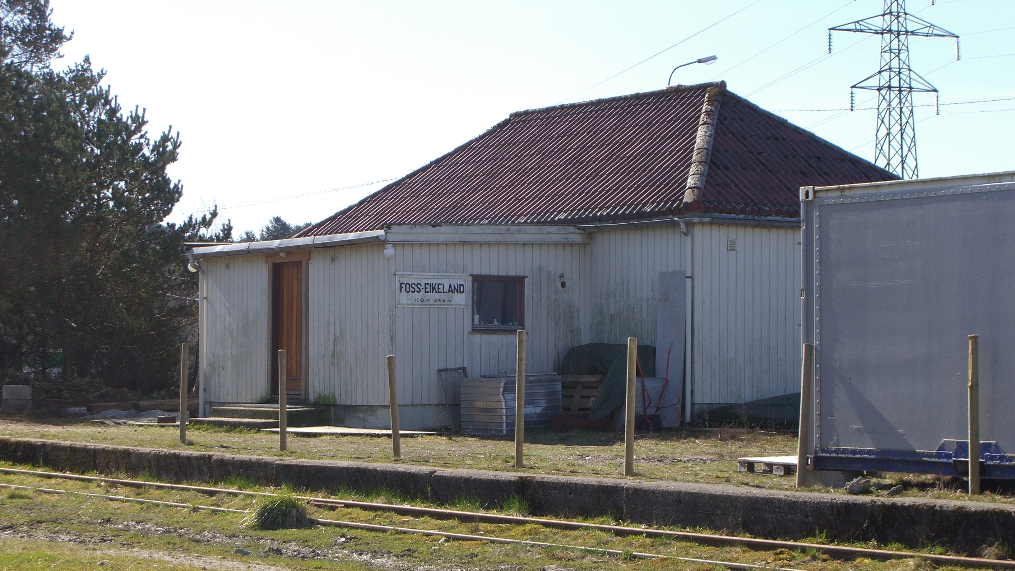 Foss-Eikeland railroad station